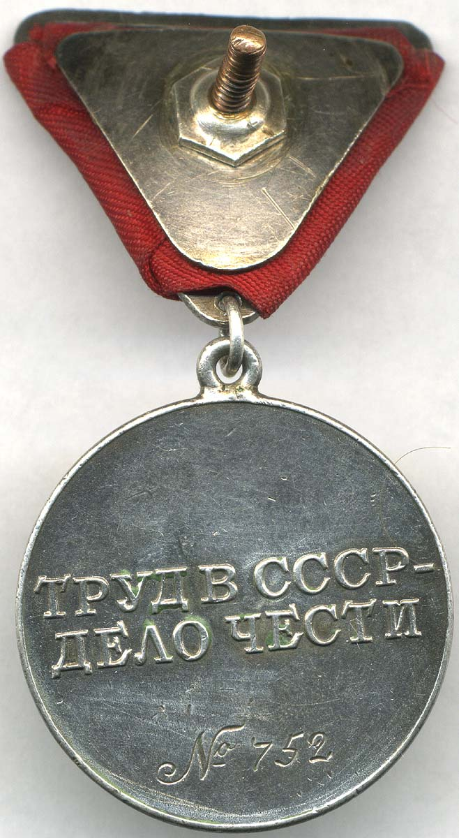 Soviet Medal For Distinguished Labour